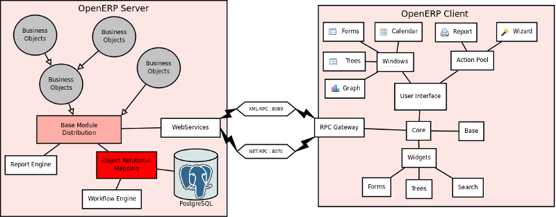 Software architecture of OpenERP.